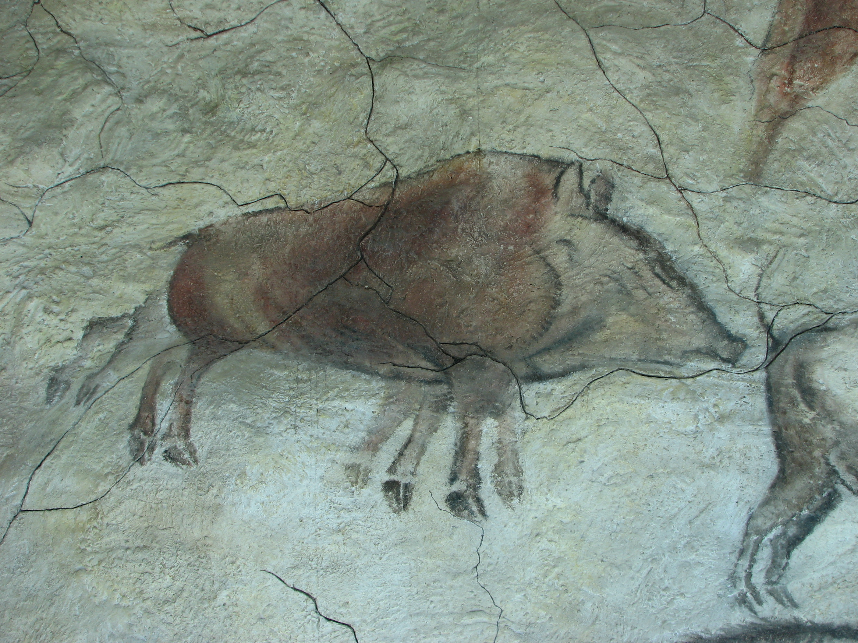 A boar from the model of the ceiling of Altamira, in the Brno museum Anthropos